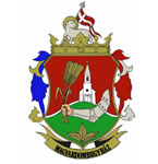 Coat of arms of Magyardombegyház, Hungary